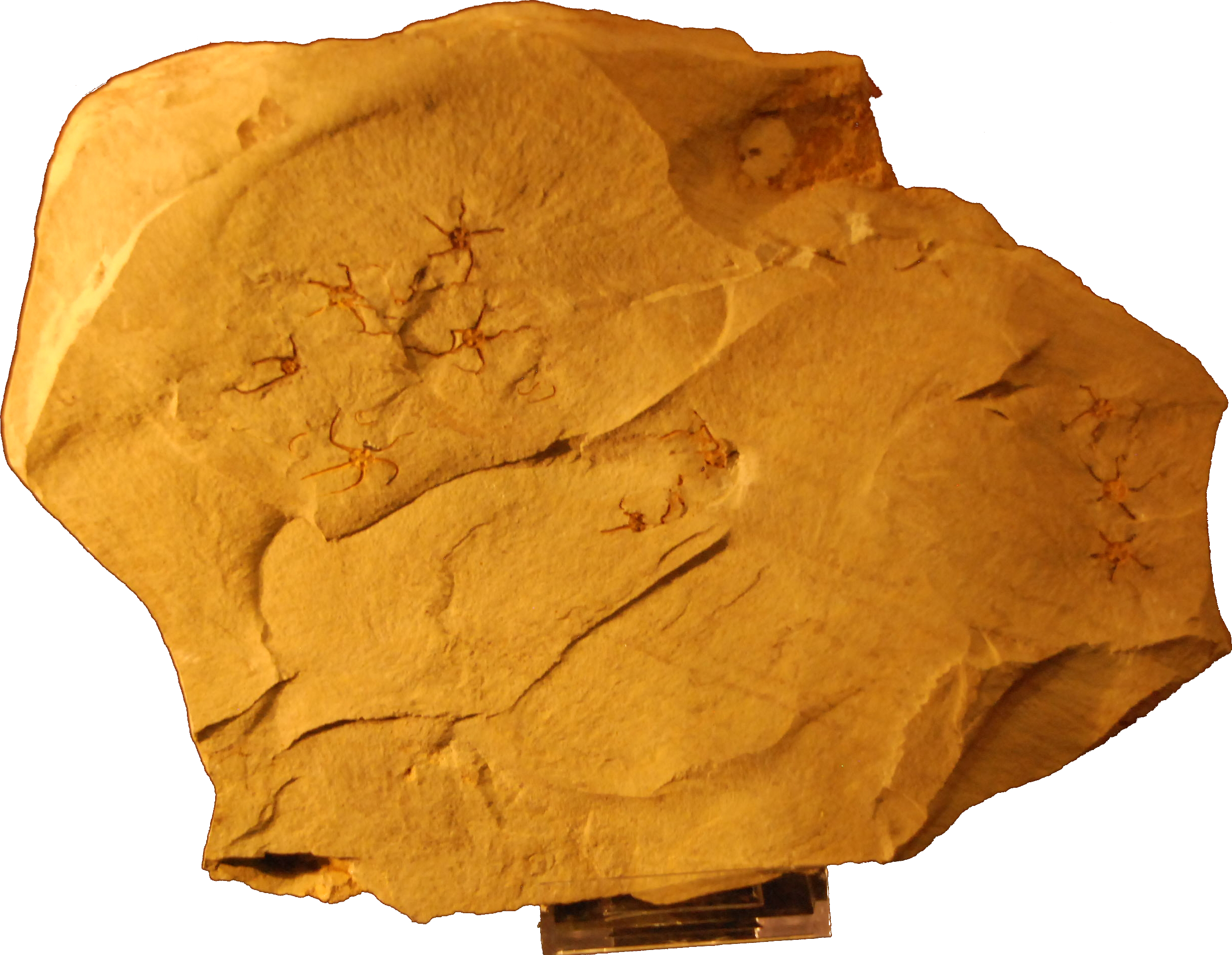 Lower Triassic brittle stars (Ophiuroidea) from the vicinity of the village of Ledine (Municipality of Idrija), western Slovenia. The photo was taken at the Natural History Museum of Slovenia.